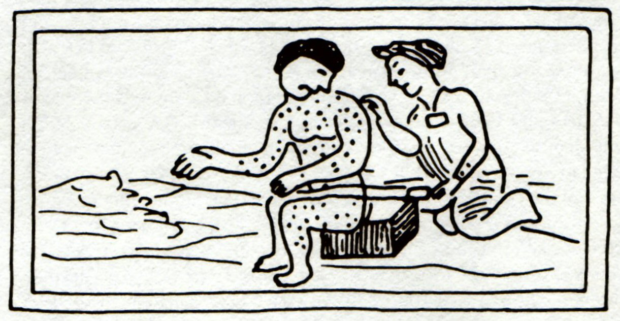 Sixteenth century Aztec drawing of a measles victim